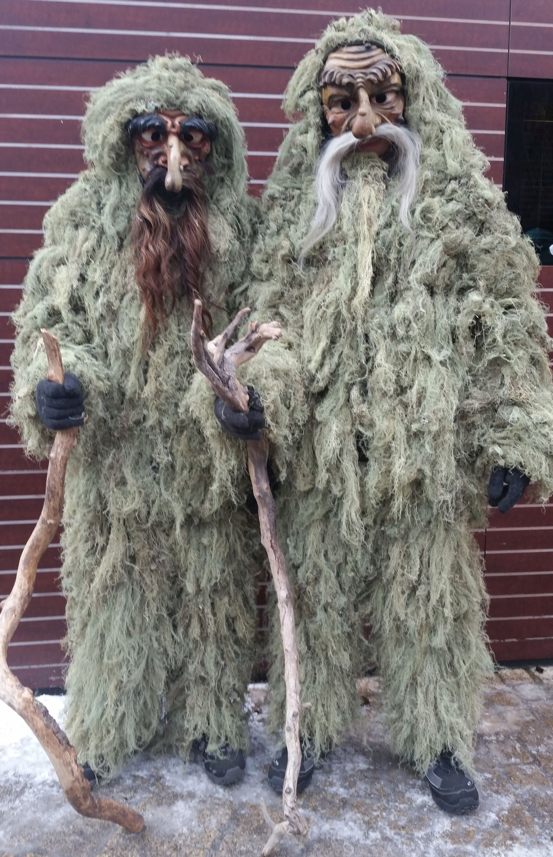 Tyrolean customs (Telfs - Austria)